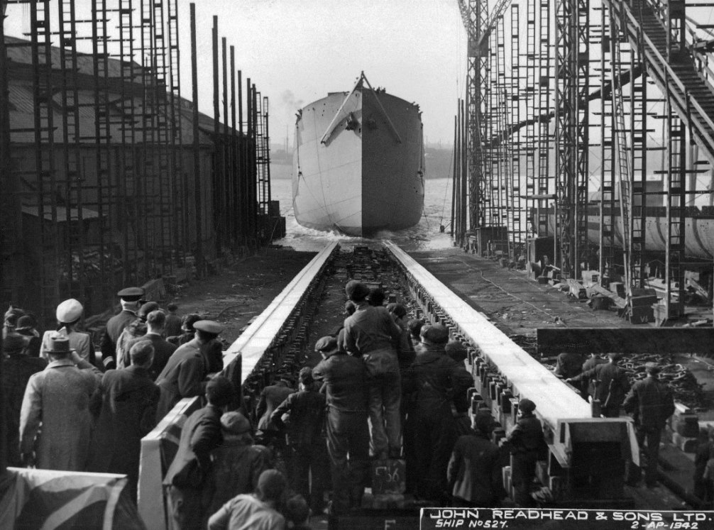 Launch of the cargo ship ‘Empire Clough’ at the shipyard of John Readhead & Sons Ltd, South Shields, 2 April 1942 (TWAM ref. 1061/1042). This set celebrates the achievements of the shipyard of John Readhead & Sons. The firm has played a significant role in the North East’s illustrious shipbuilding history and the development of South Shields. The company began in 1865 when John Readhead, a shipyard manager, entered into business with J Softley at a small yard on the Lawe at South Shields. Following the dissolution of the partnership in 1872, it continued as John Readhead & Co on the same site until 1880 when the High West Yard was purchased. After Readhead’s four sons were taken into the business in 1888 the company traded as John Readhead & Sons becoming a limited company in 1908. In 1968 the company was absorbed by the Swan Hunter Group and in 1977 became part of the nationalised British Shipbuilders. In the same year the last vessel was launched and the site was sold off in 1984. Readheads was prolific and built over 600 ships from 1865 to 1968, including 87 vessels for the Hain Steamship Company Ltd and over forty for the Strick Line Ltd. The shipyard also built four ships for the Prince Line, founded by Sir James Knott. The firm built vessels, which were involved in the major conflicts of the Twentieth Century. During the First World War they built patrol vessels and ‘x’ lighters (motor landing craft used in the Gallipoli campaign) for the Admiralty. During the Second World War the firm built tankers for the Normandy Landings. (Copyright) We're happy for you to share this digital image within the spirit of The Commons. Please cite 'Tyne & Wear Archives & Museums' when reusing. Certain restrictions on high quality reproductions and commercial use of the original physical version apply though; if you're unsure please .